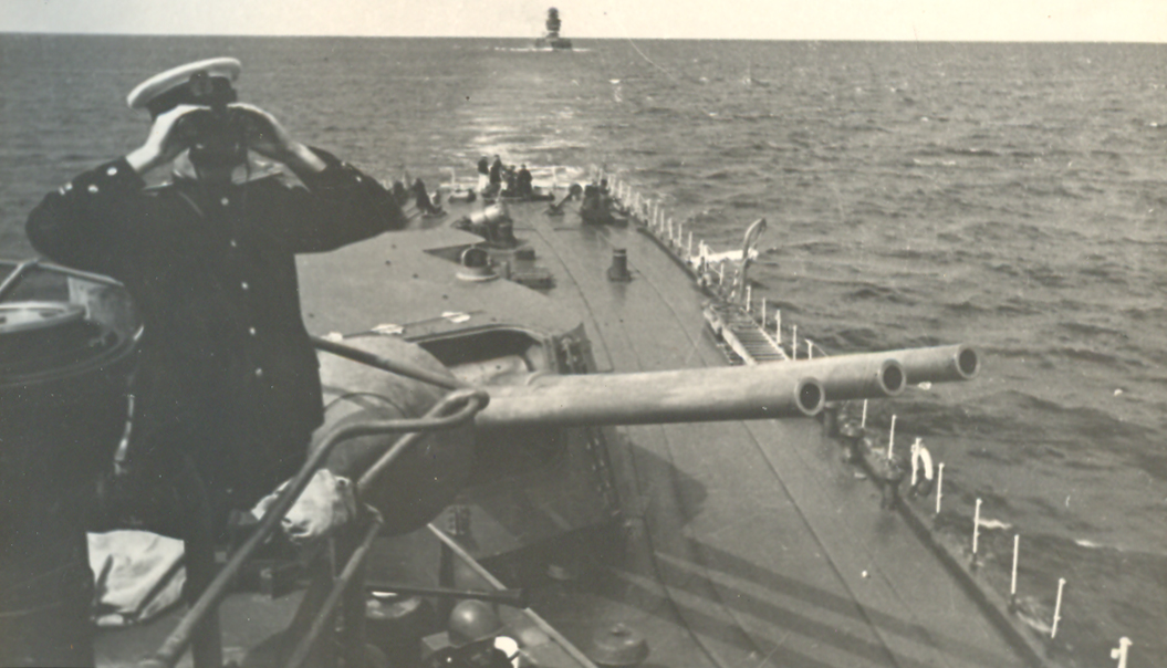 Voroshilov cruiser on active duty